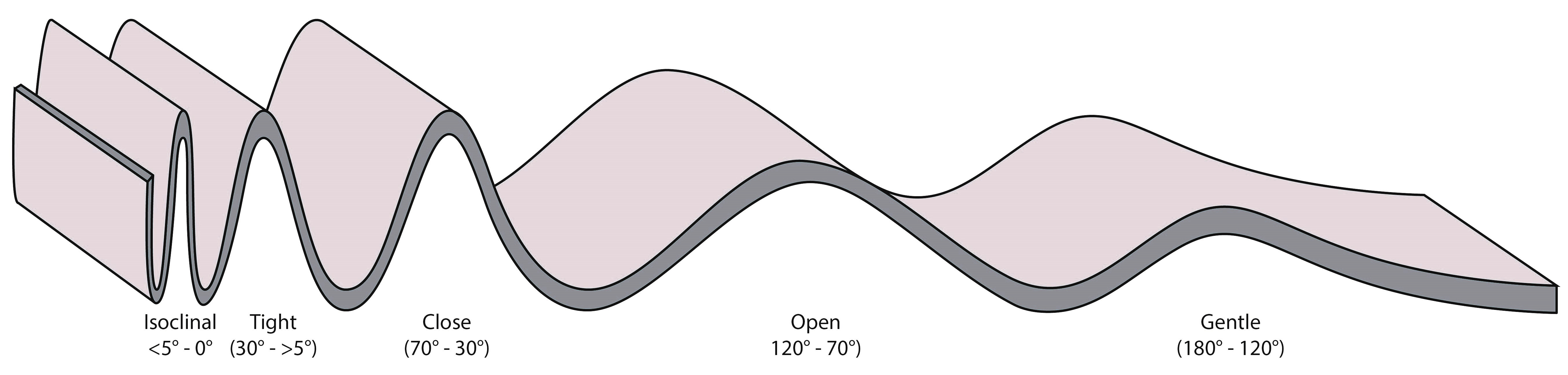 Fold description based on interlimb angles